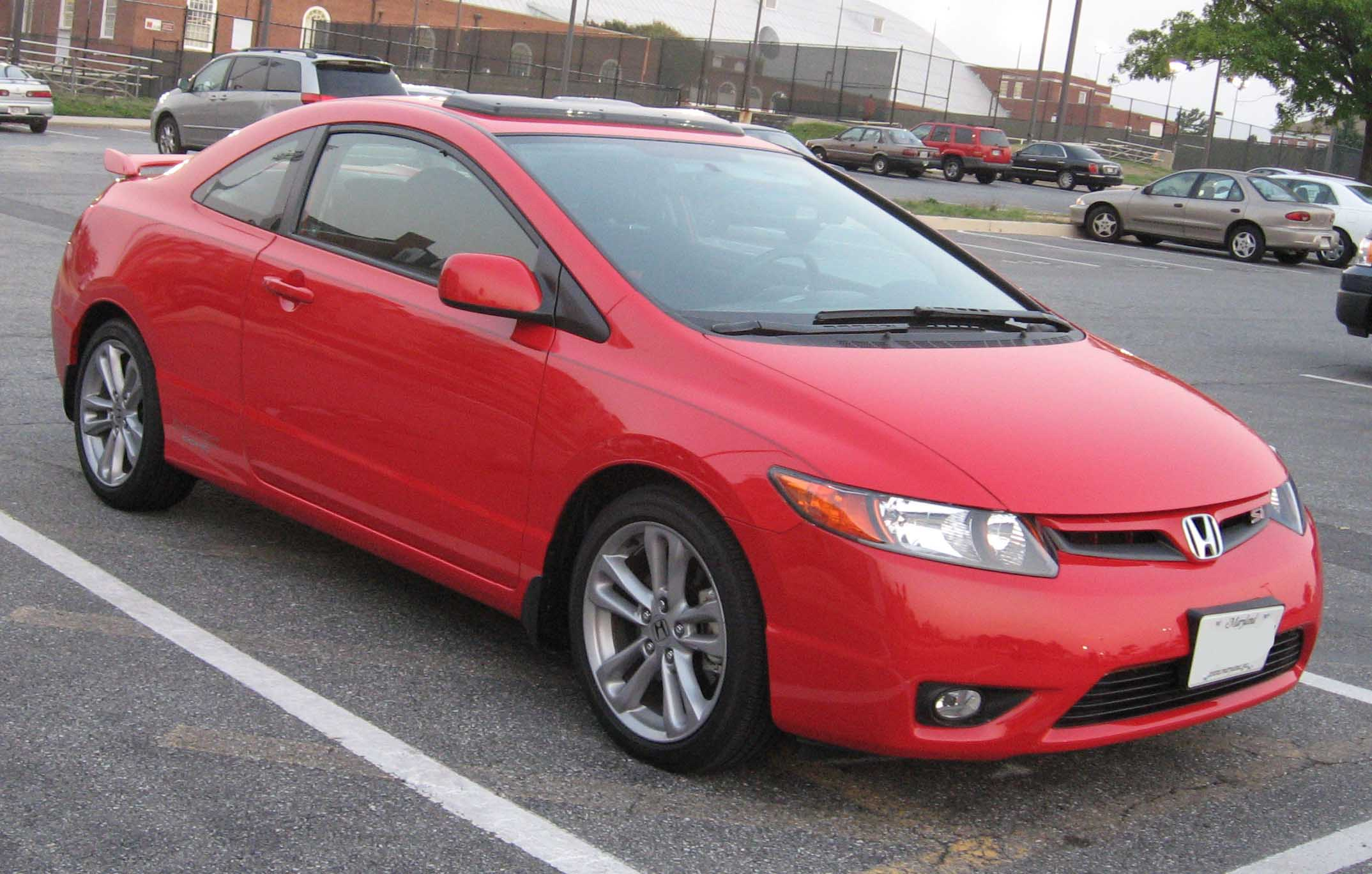 2006-2007 Honda Civic Si photographed in College Park, Maryland, USA.